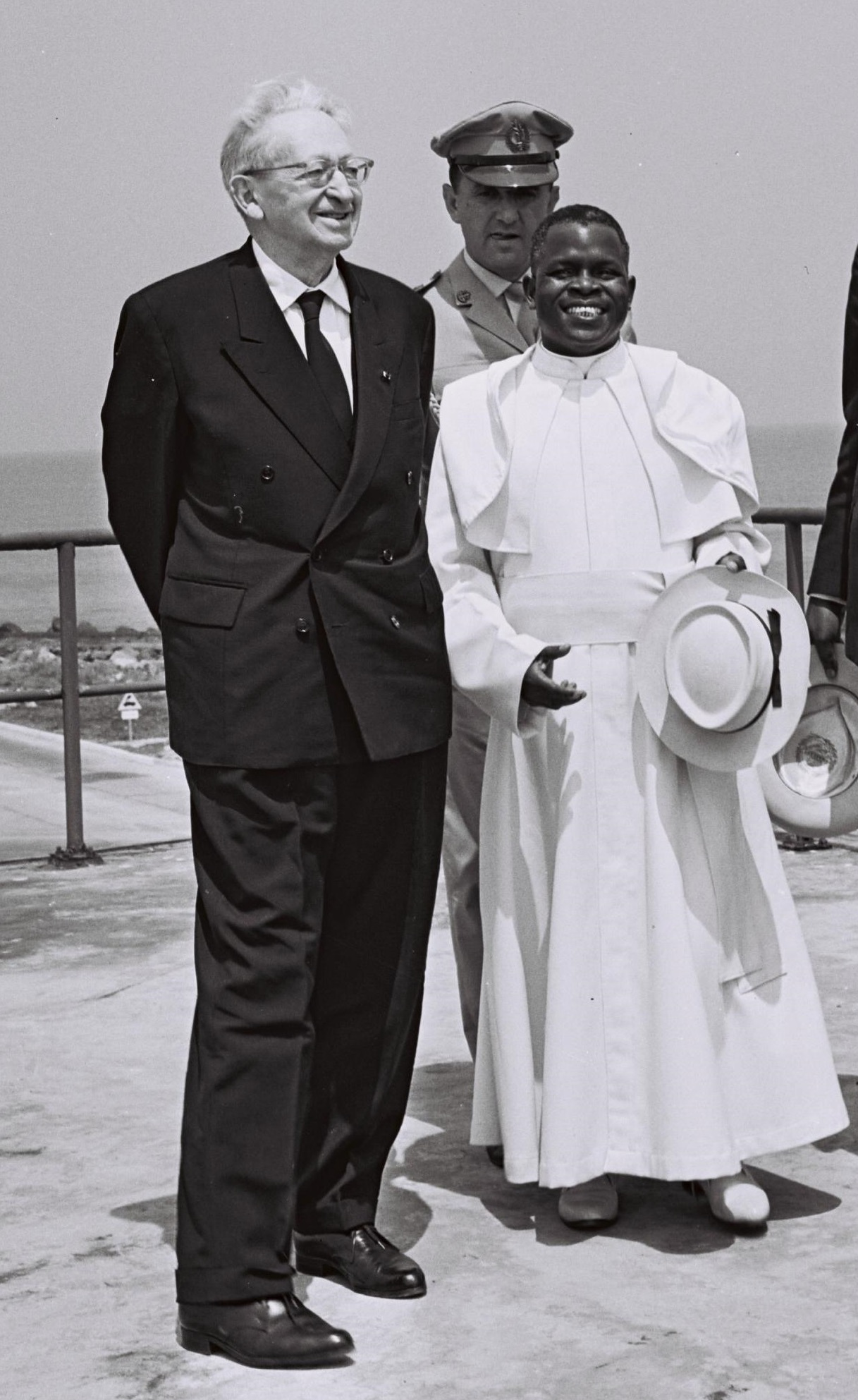 Pres. Ben Zvi on the roof of the port building L-R, pres. Ben Zvi, pres. Fulbert Youlou, vice pres. of Congo and mayor of Point Noir mr. Tchichelle and his wife.